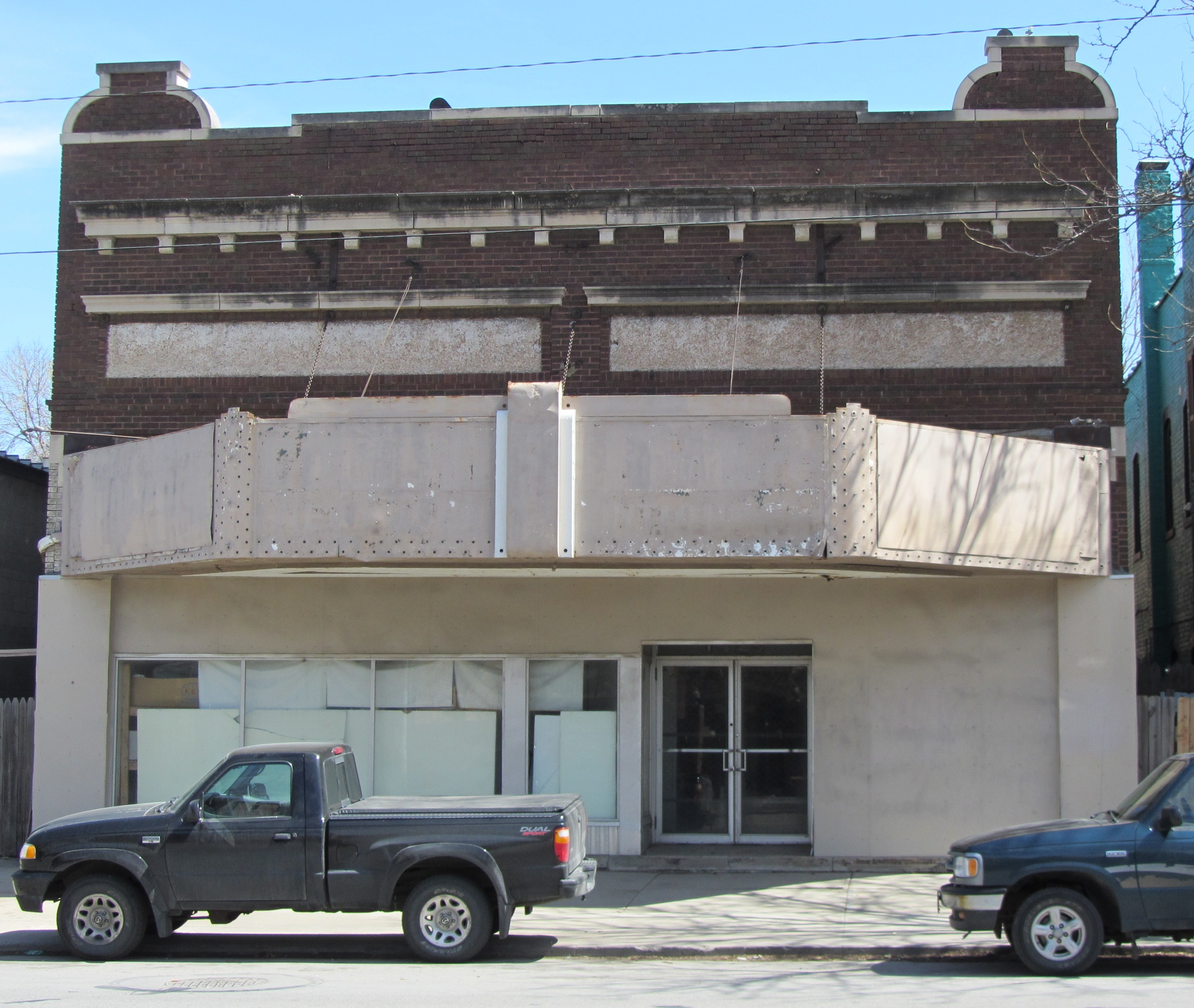 Photo of the former Maryland Theatre, later renamed the Berkley Theatre. The building is now used as storage for a local business.